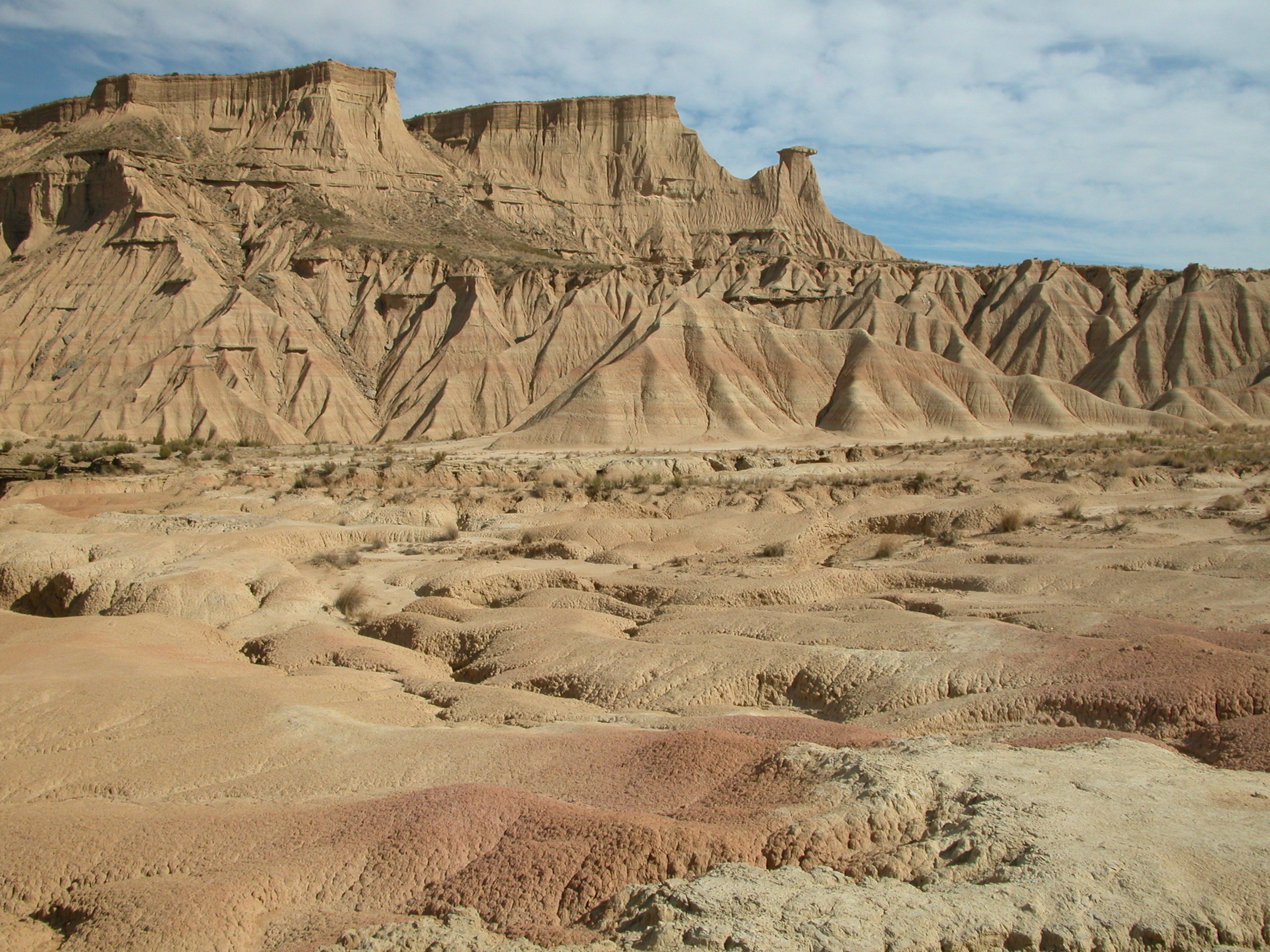 The Pisquerra massif, in the Bardenas Reales